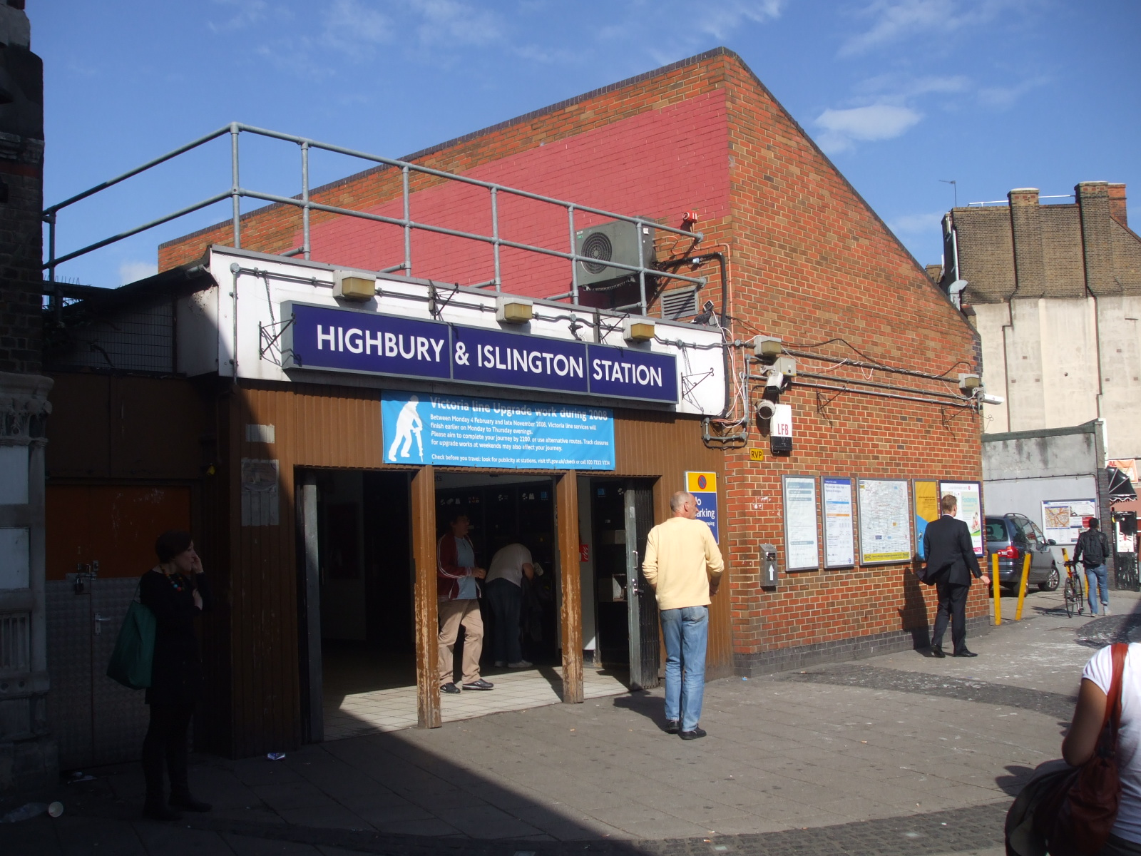 Highbury & Islington station entrance